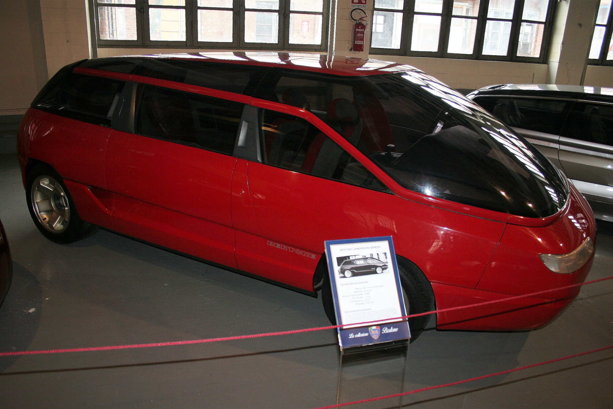 At the Bertone collection of the Automotoclub Storico Italiano (ASI), located in Volandia outside of Milan (by the Malpensa airport and museum areas